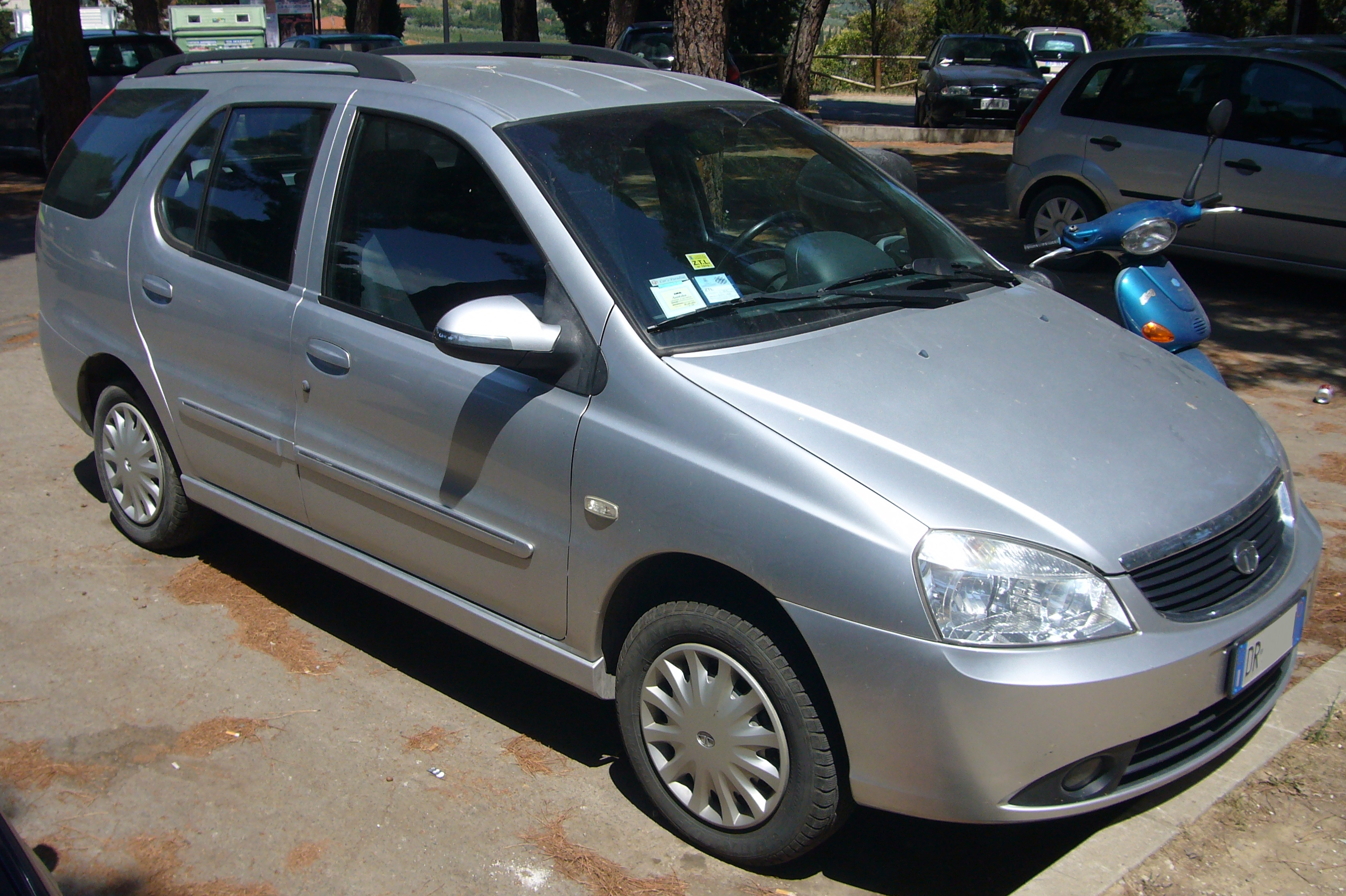 Tata Indigo SW (Marina) in Tuscany, Italy